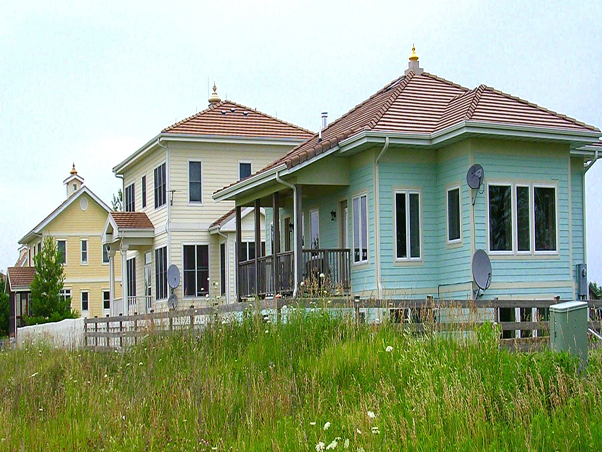 Homes in Maharishi Vedic City, Iowa. Photo taken and submitted by user: Keithbob